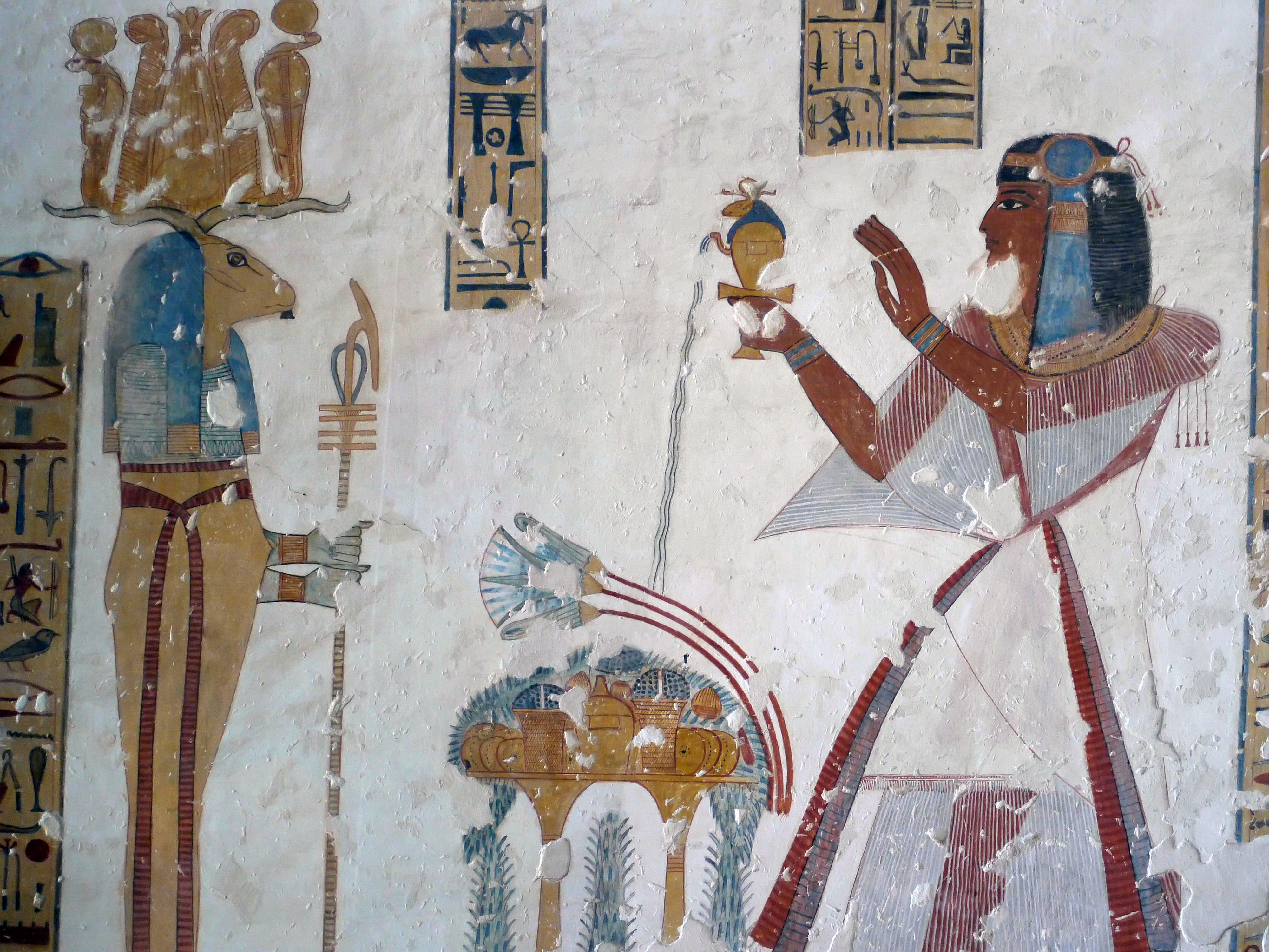 King’s Valley (KV) tomb No.19 belongs to Prince Mentuherkhepsef, a son of pharaoh Ramesses IX. It was originally designated to be the burial place of pharaoh Ramesses VIII until this king’s premature death aborted this plan. KV19 is only partly decorated but it features some of the finest reliefs dating to the Late New Kingdom period of Egypt.